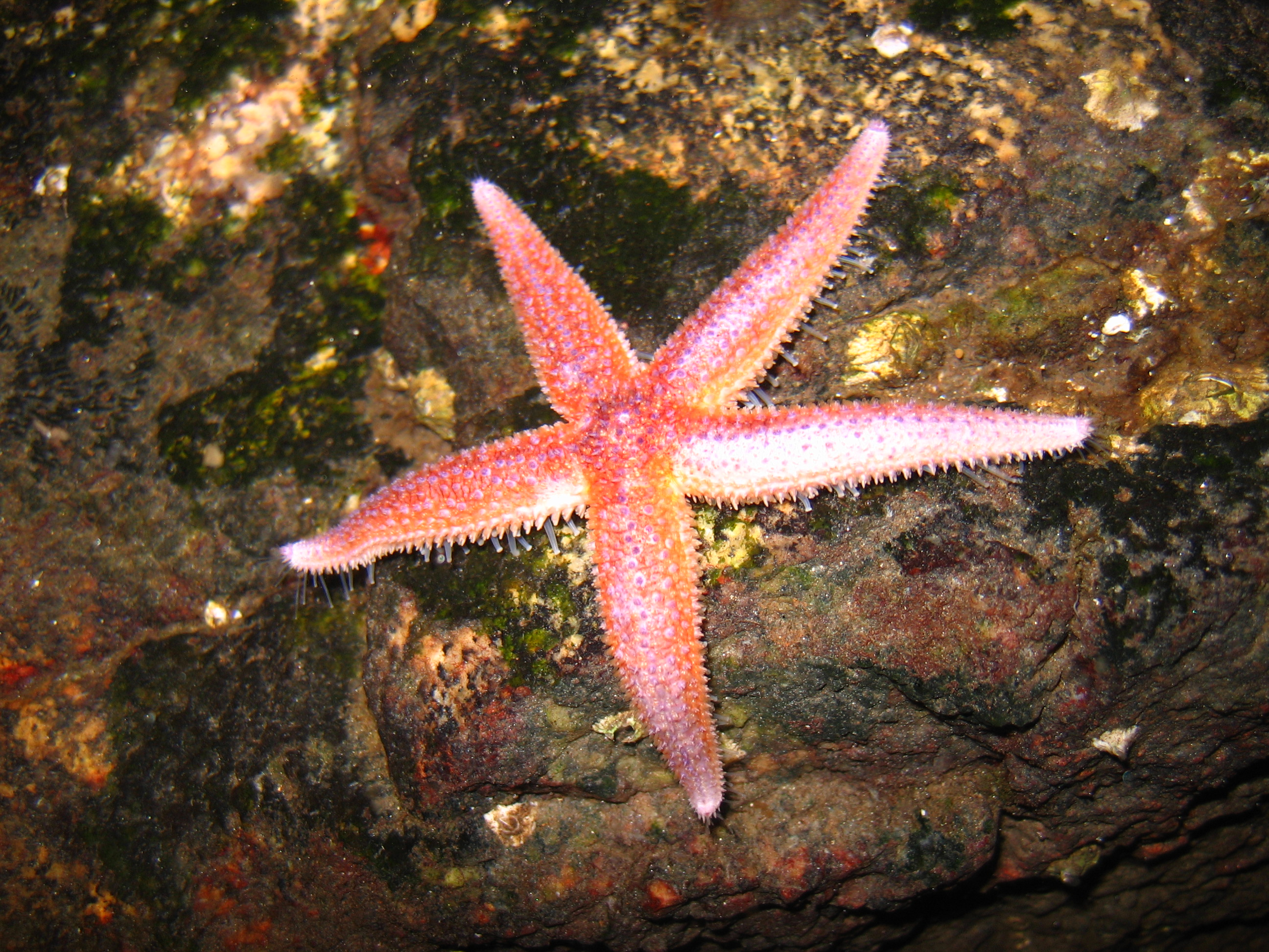 Starfish on rock, photographed at Herøy kystmuseum, Herøy, Møre og Romsdal, Norway